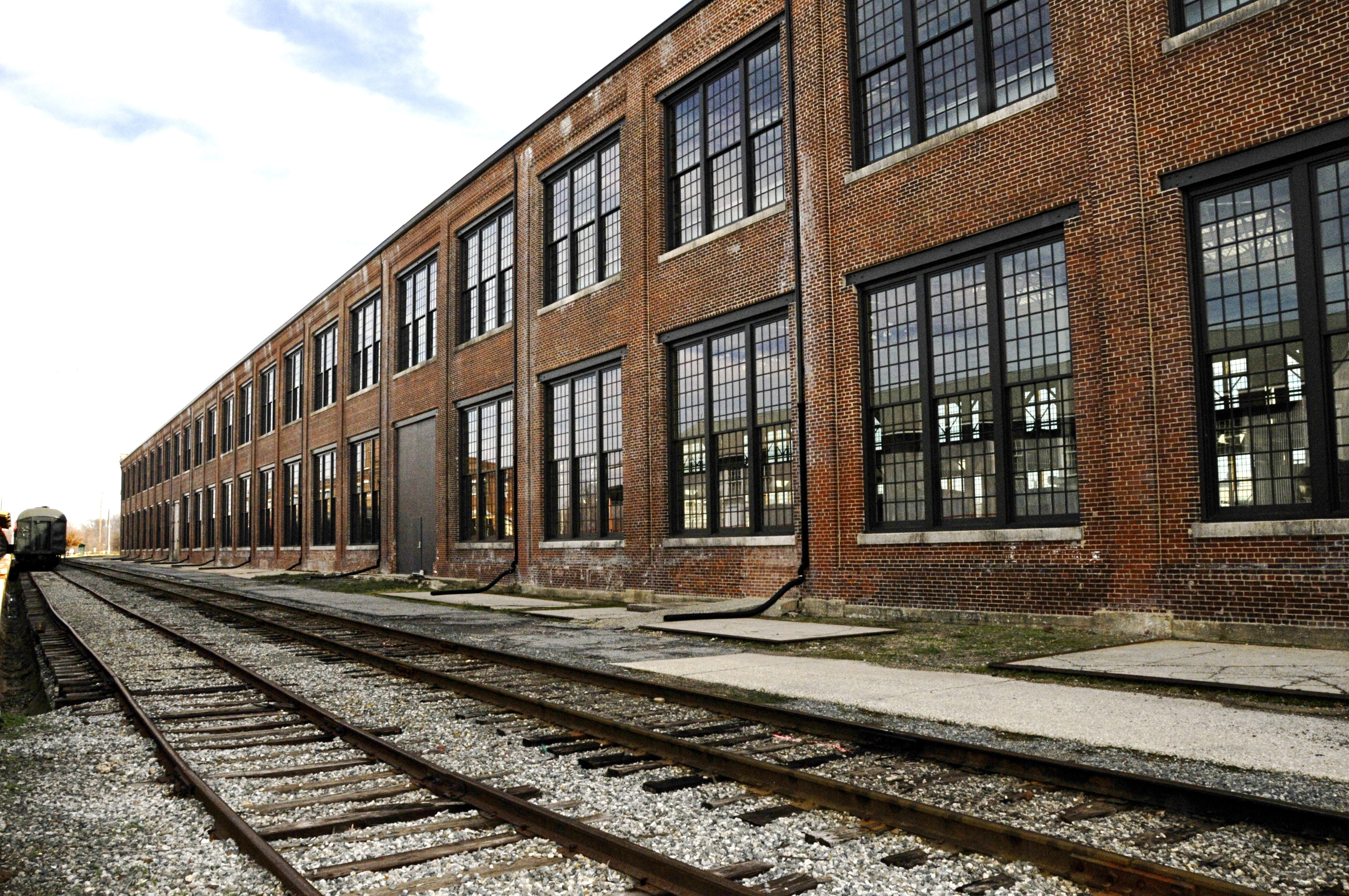 Train repair shop, North Carolina Transportation Museum, Spencer, North Carolina.